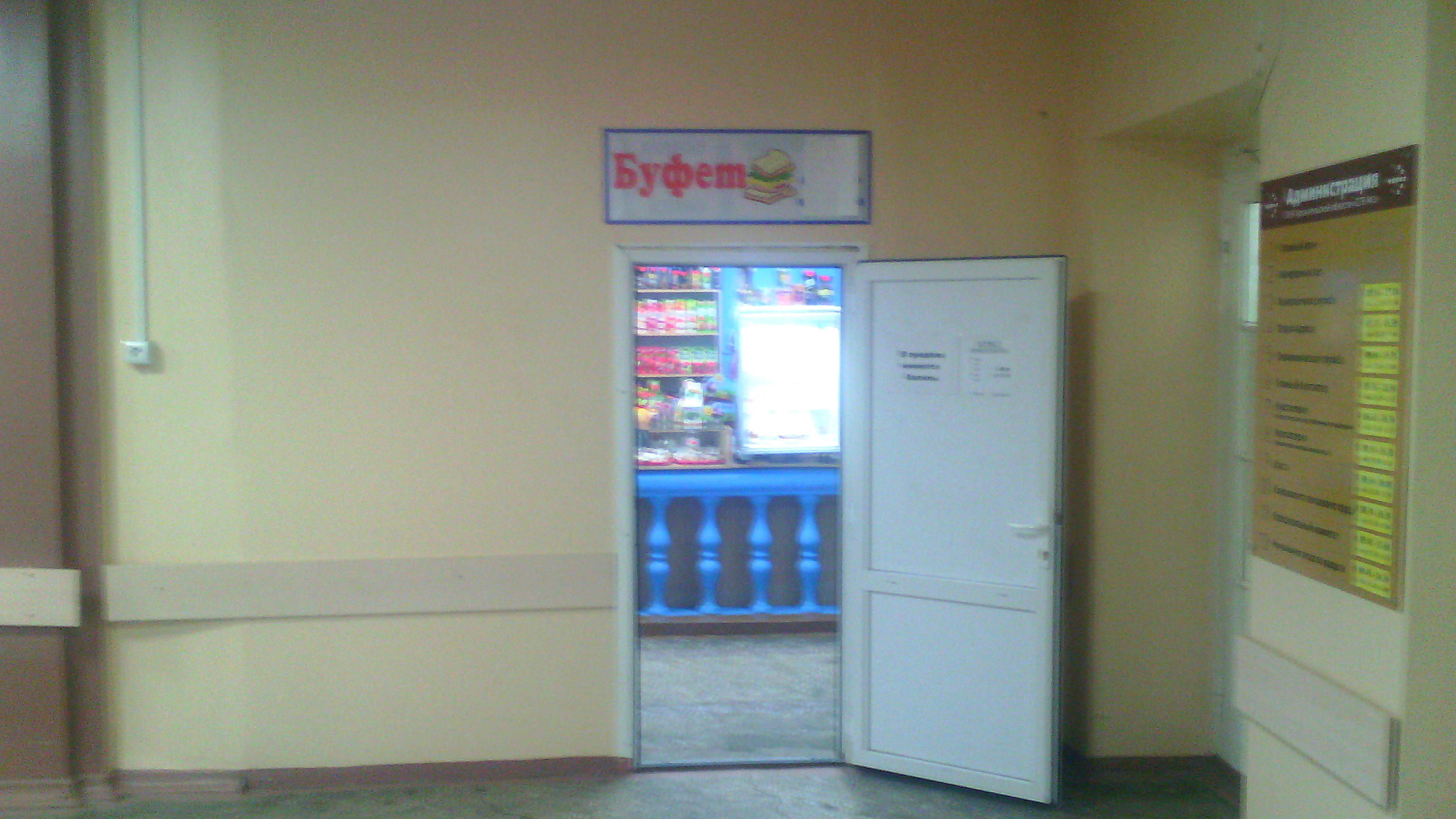 47, Lomonosova Street, Severodvinsk.Hospital.